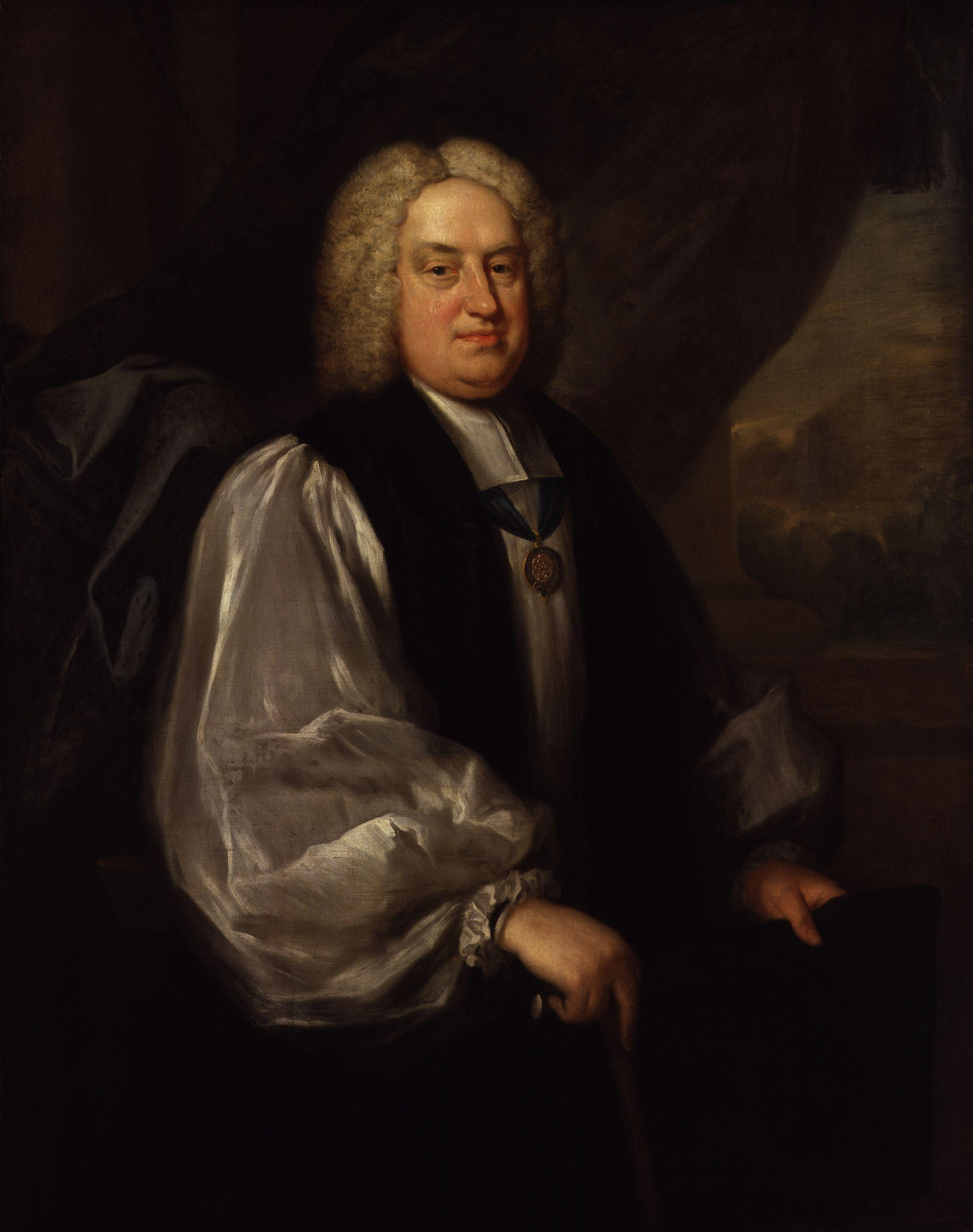 Portrait of Benjamin Hoadly (1676–1761), was an English clergyman, who was successively bishop of Bangor, Hereford, Salisbury, and Winchester, famous for initiating the Bangorian Controversy